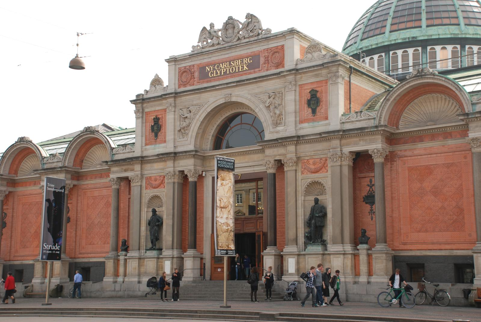 The entrance to the Ny Carlsberg Glyptotek in Copenhagen, Denmark